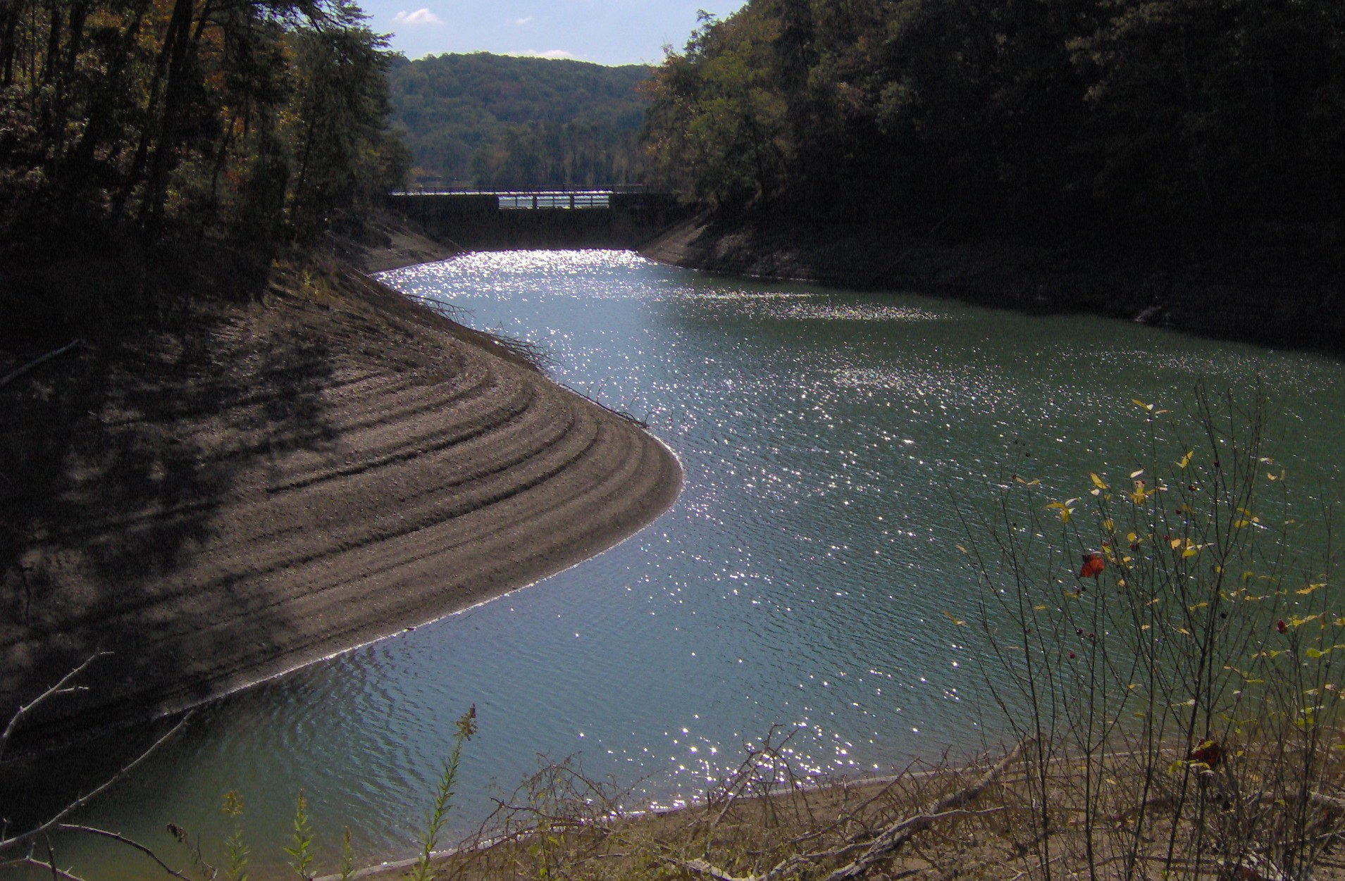 Looking south across Norris Lake's Big Ridge inlet toward Big Ridge Dam in Union County, Tennessee, in the southeastern United States. The dam, in the upper left, retains Big Ridge Lake (slightly visible through the dam's spillway). Norris Lake occasionally rises high enough to submerge the dam. This view is from the West Hollow Trail, at the base of Pinnacle Ridge.